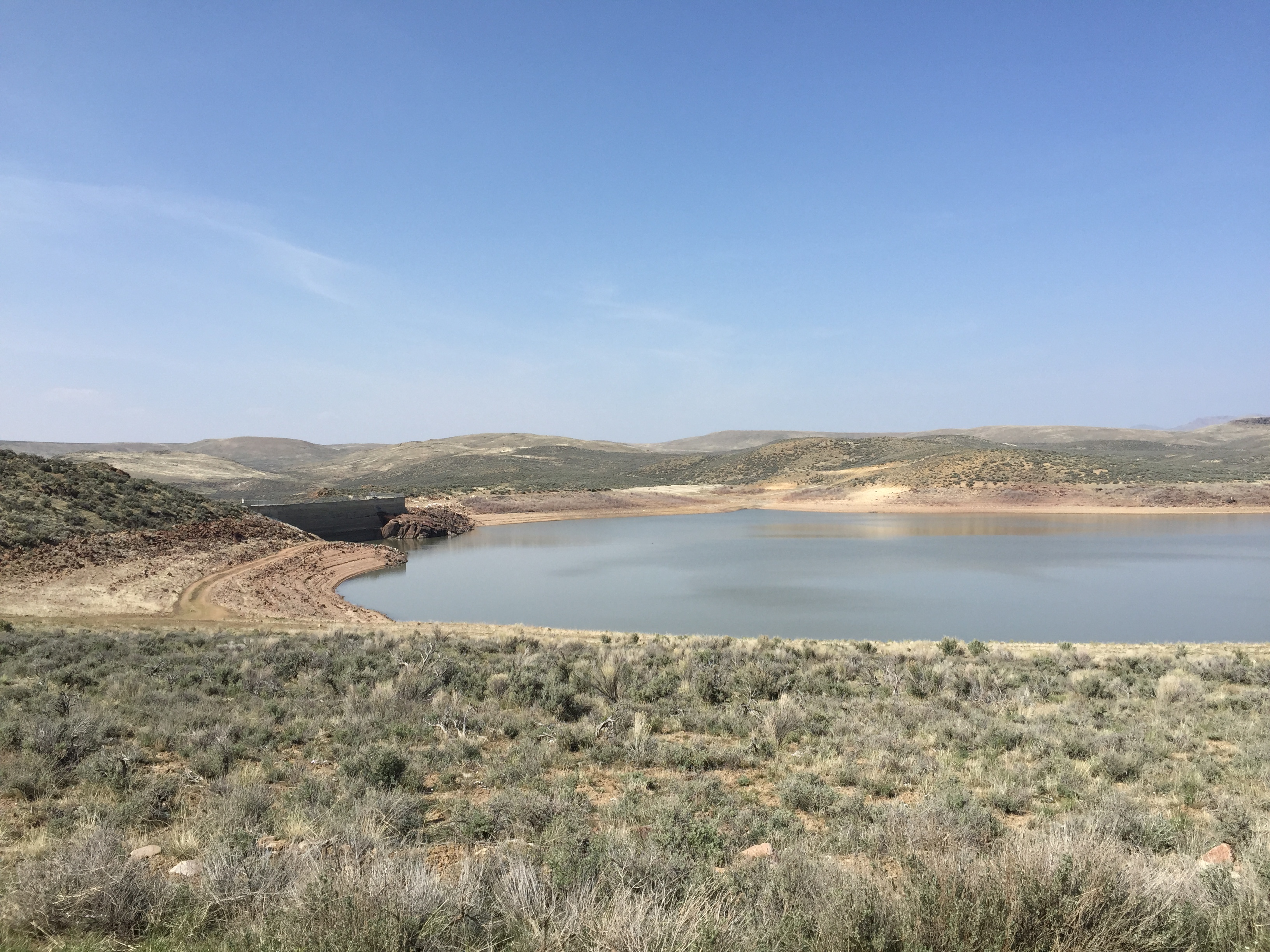 View across Willow Creek Reservoir from Midas Road (Elko County Route 724) about 26.9 miles east of the Humboldt County line in Elko County, Nevada